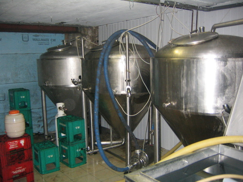 A picture of the cylindro-conical fermenters at Brasserie Fantôme, taken during my visit there in the summer of 2006.